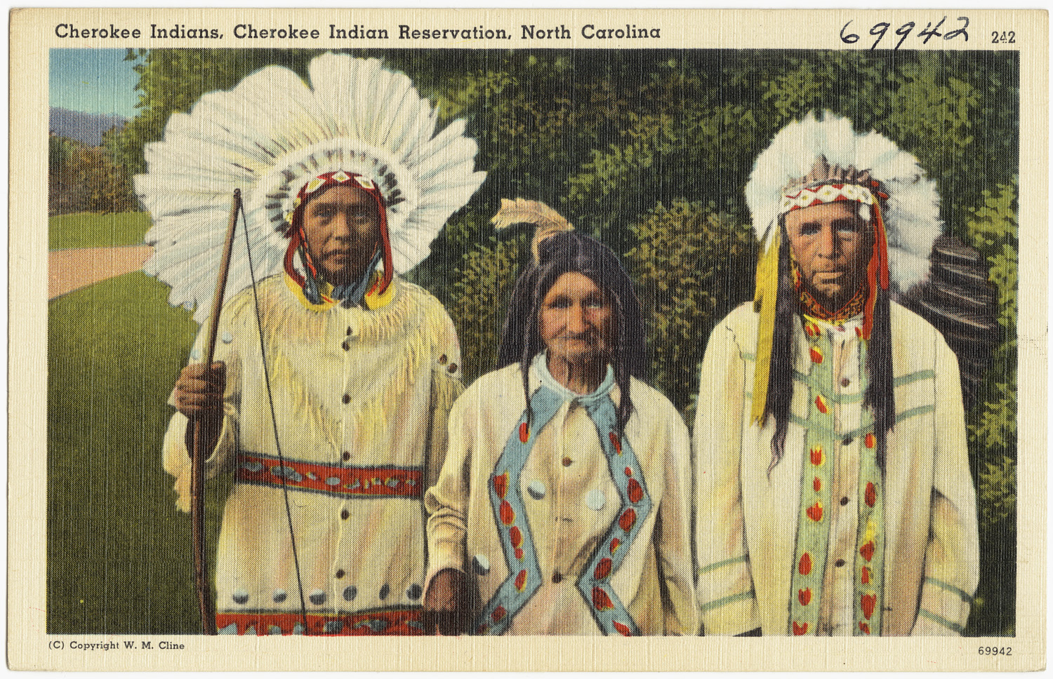 File name: 06_10_015732 Title: Cherokee Indians, Cherokee Indian Reservation, North Carolina Created/Published: Pub. only by W. M. Cline Co., Chattanooga, Tennessee; Tichnor Bros. Inc., Boston, Mass. Date issued: 1930 - 1945 (approximate) Physical description: 1 print (postcard) : linen texture, color ; 3 1/2 x 5 1/2 in. Genre: Postcards Subjects: Notes: Collection: The Tichnor Brothers Collection Location: Boston Public Library, Print Department Rights: No known restrictions